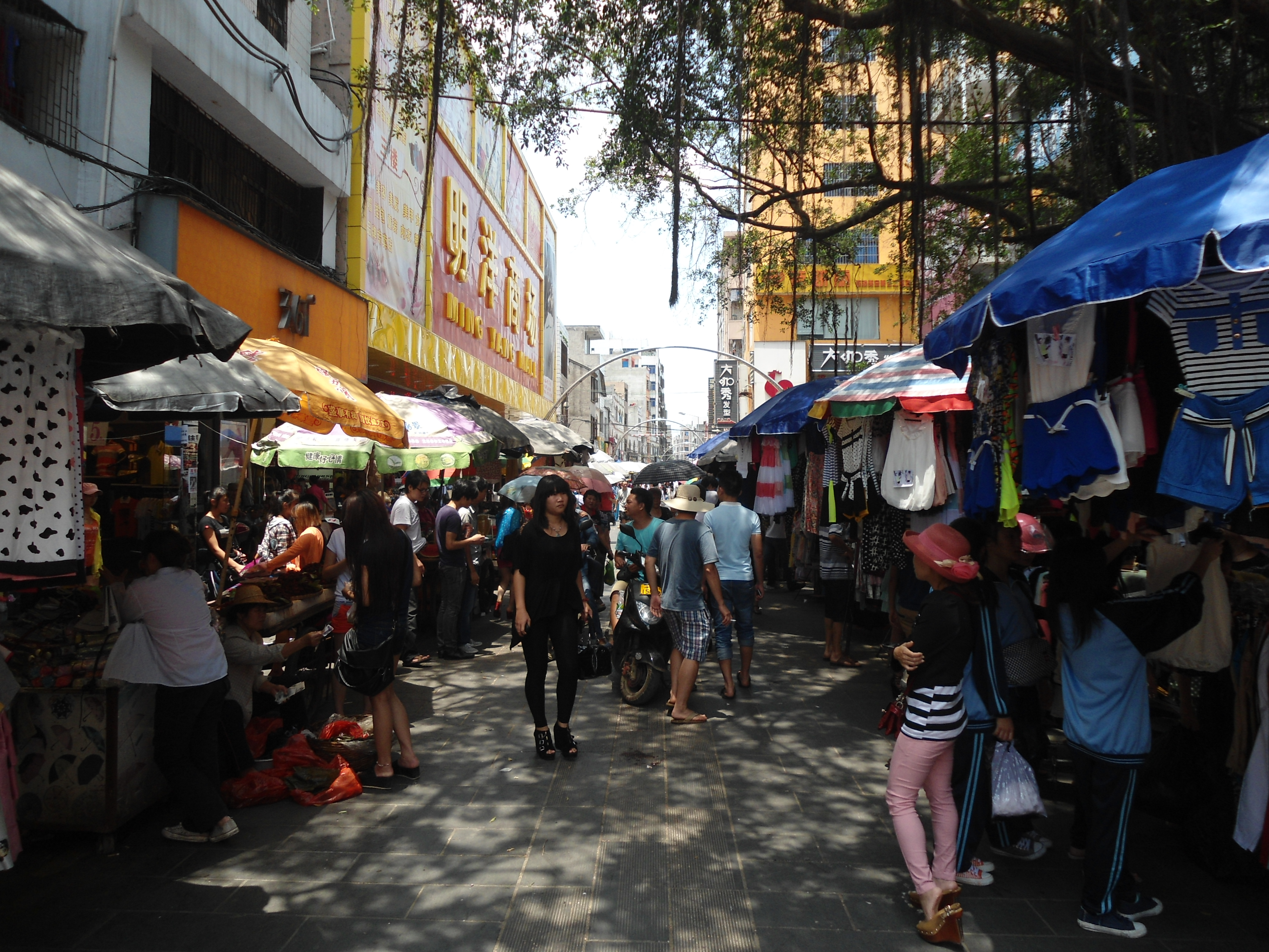 Zhongjie Road, Haikou, Hainan, China.